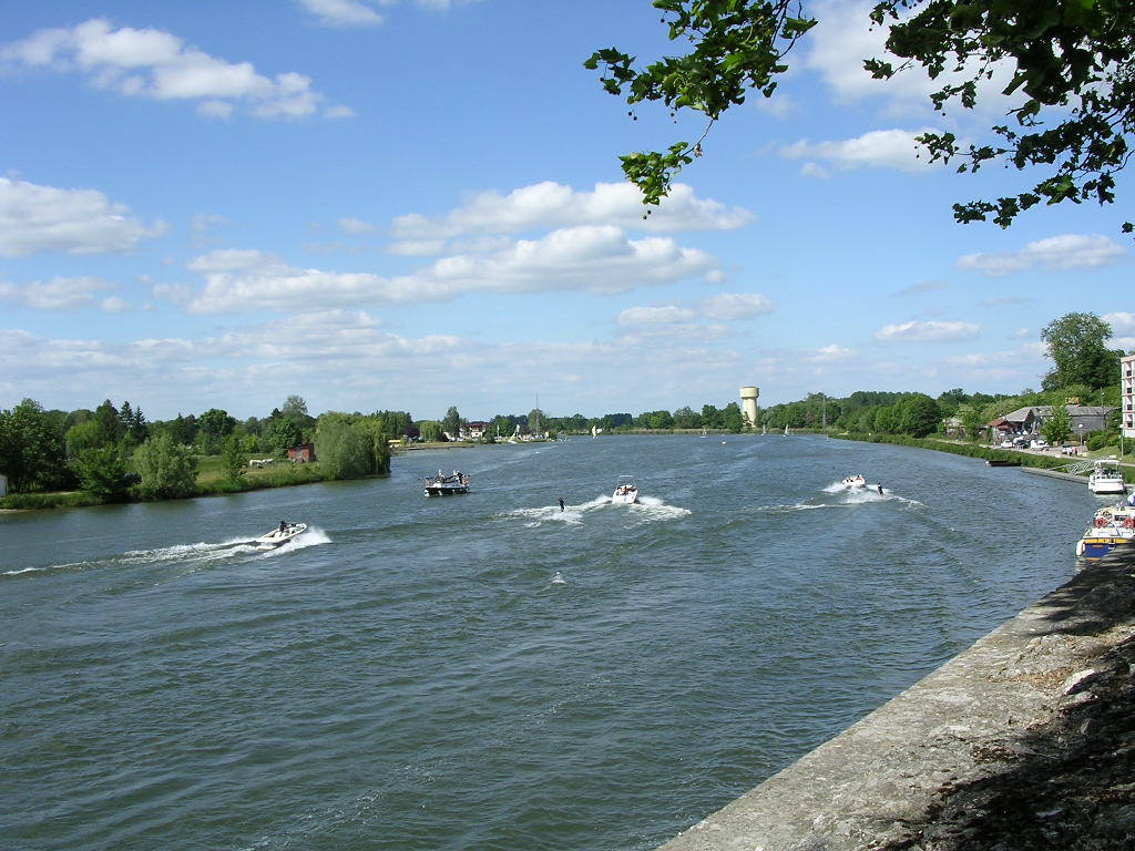 Auxonne, Burgundy, France, Sport nautique sur la Saône